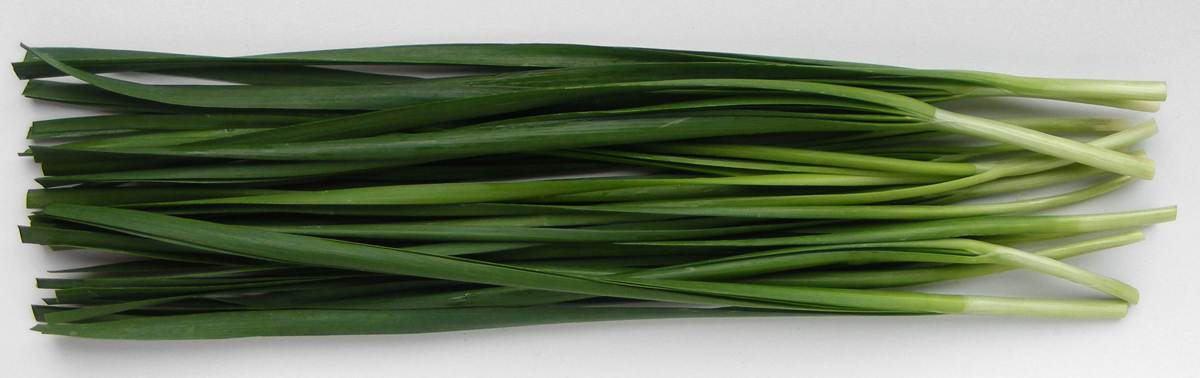 Cut Chinese garlic chives (jiǔcài).